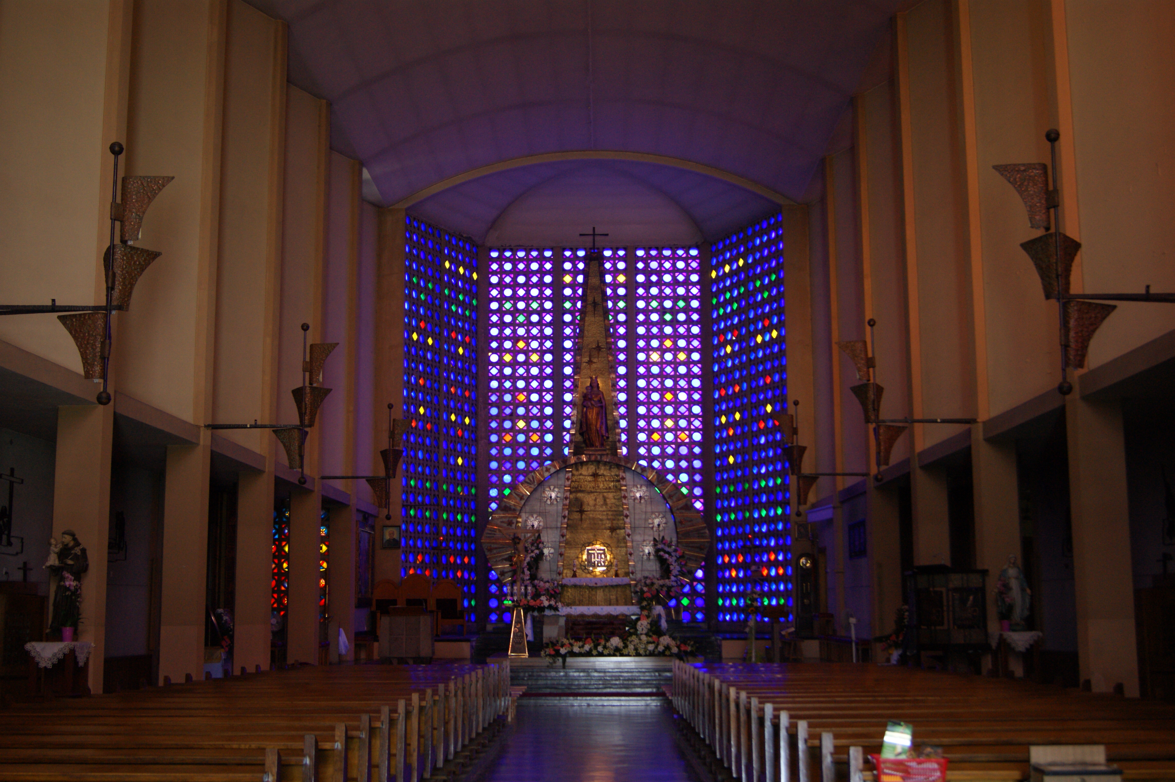 Church of Our Lady of Victories (interior), 86 Zakopianska street, Krakow, Poland